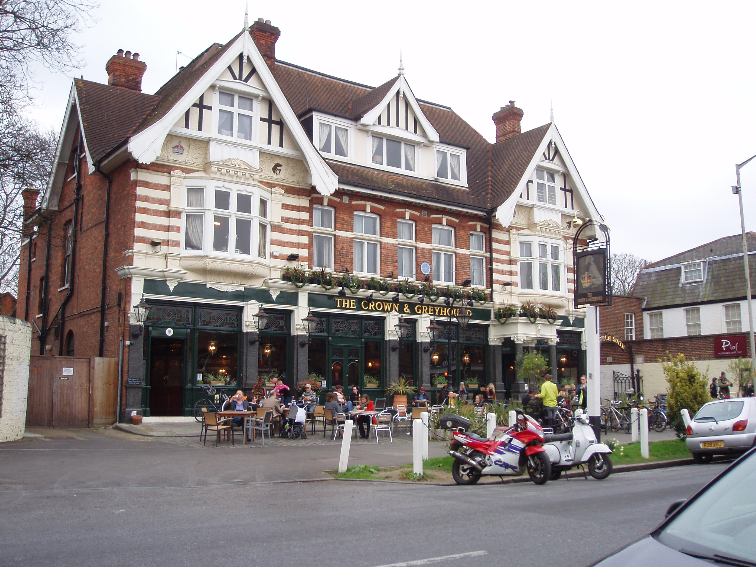 A nice-looking well-attended pub with a large garden out the back as well as seating in front. It replaced two separate 19th Century pubs, whose names you can probably guess (The Crown was on this site, while The Greyhound was across the road a bit to the south). (Photo of menu page 1 and page 2, Jun 2010.) (Photos of caesar salad, steak & ale pie and sharing plate.) Address: 73 Dulwich Village (formerly High Street). Former Name(s): The Crown. Owner: Mitchells and Butlers [Metro Professionals] (website); Taylor Walker (former). Links: Randomness Guide to London Fancyapint Beer in the Evening Qype Dead Pubs (history) Dead Pubs (history) (The Old Greyhound)